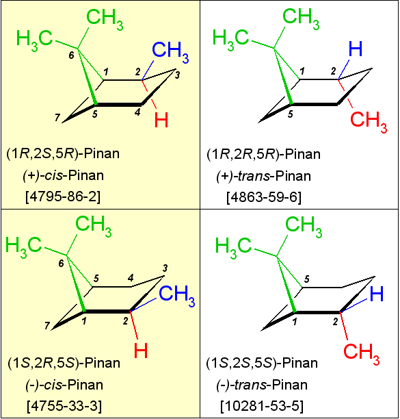 Stereoisomers of pinane